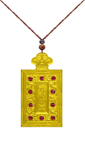 Boi Imperial Vietnamese Order